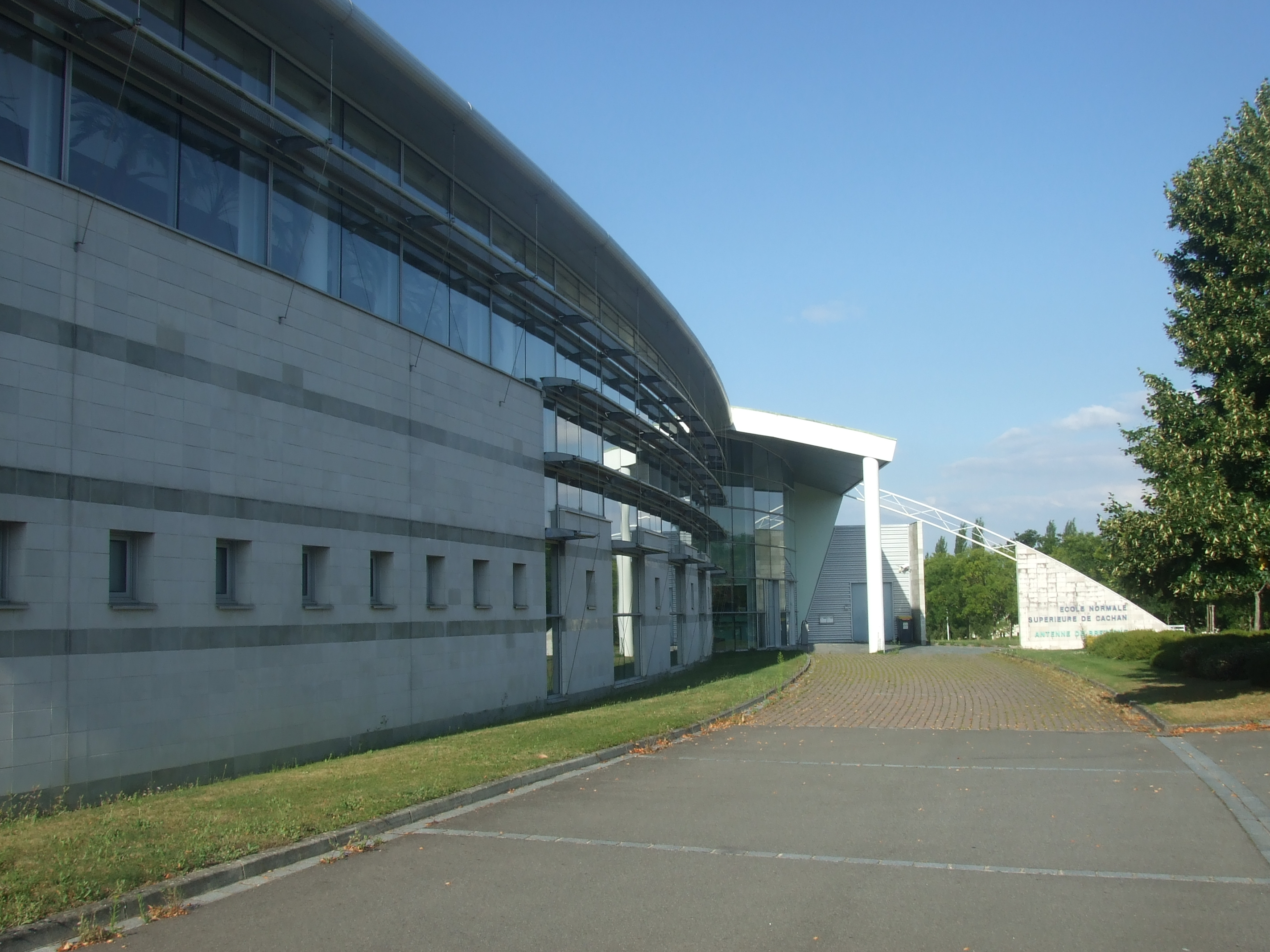 building of the Ecole Normale Supérieure de Cachan (Antenne de Bretagne)